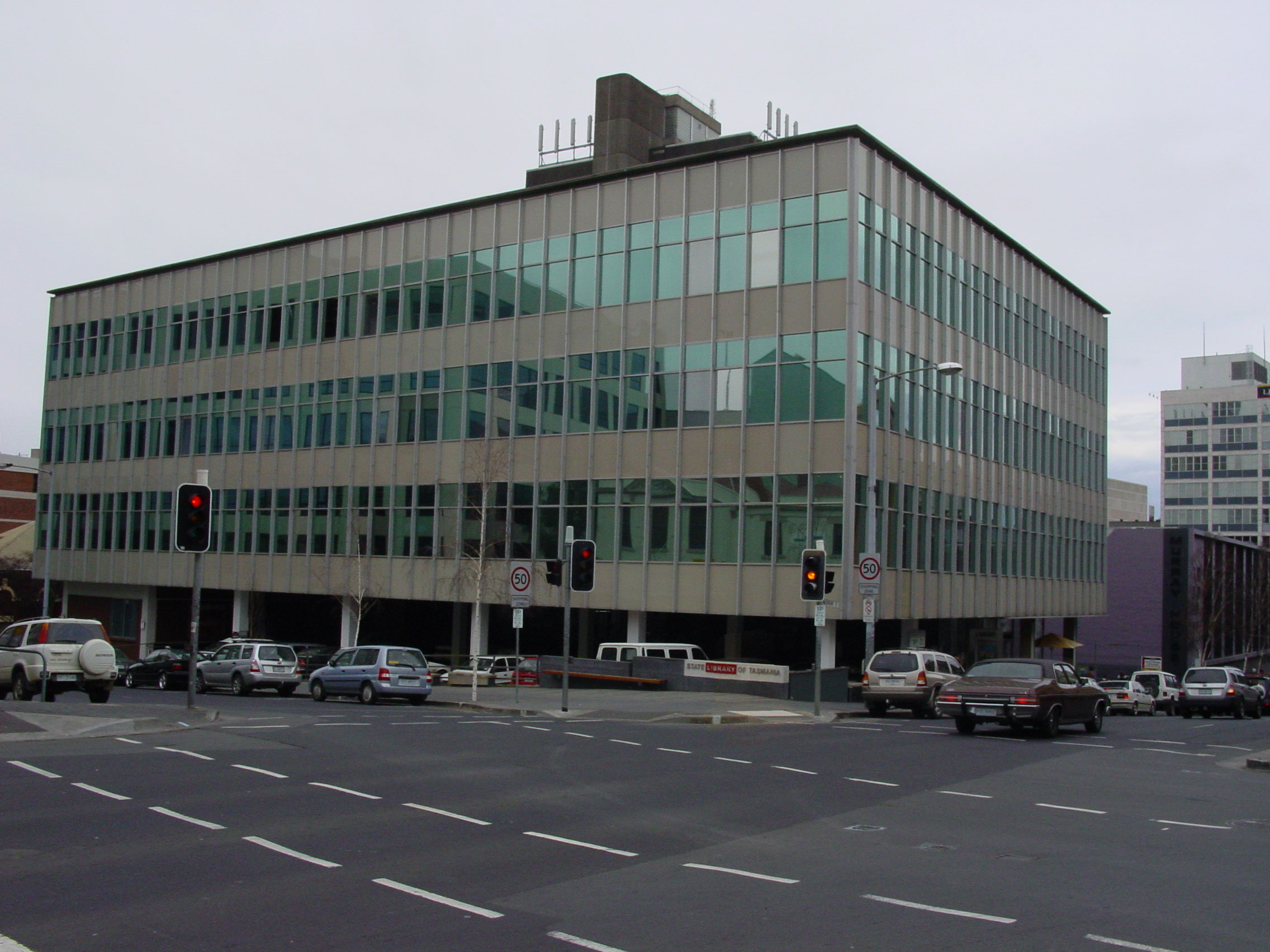 The State Library of Tasmania building in Hobart, Tasmania, Australia.